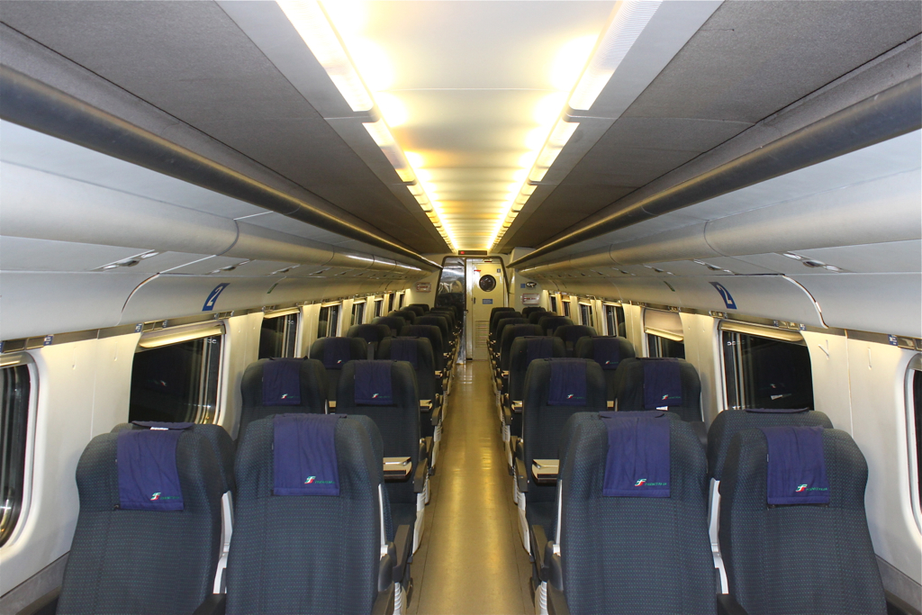 Interior of ETR 470.058 BAC; EC 25 Zürich HB — Milano C.le.